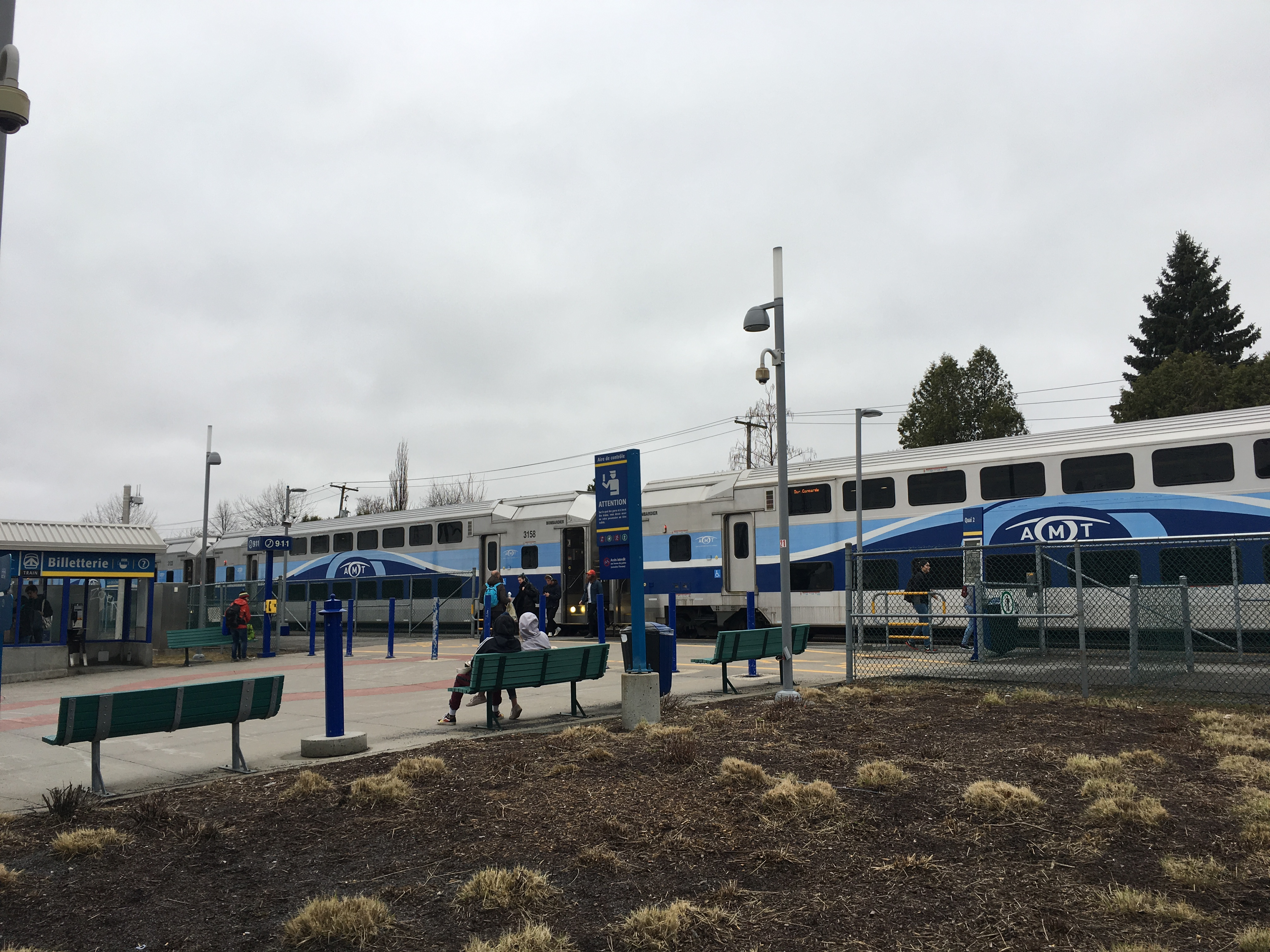 Picture of the de la Concorde (exo) train station, with an exo2 line train stopped at the platform